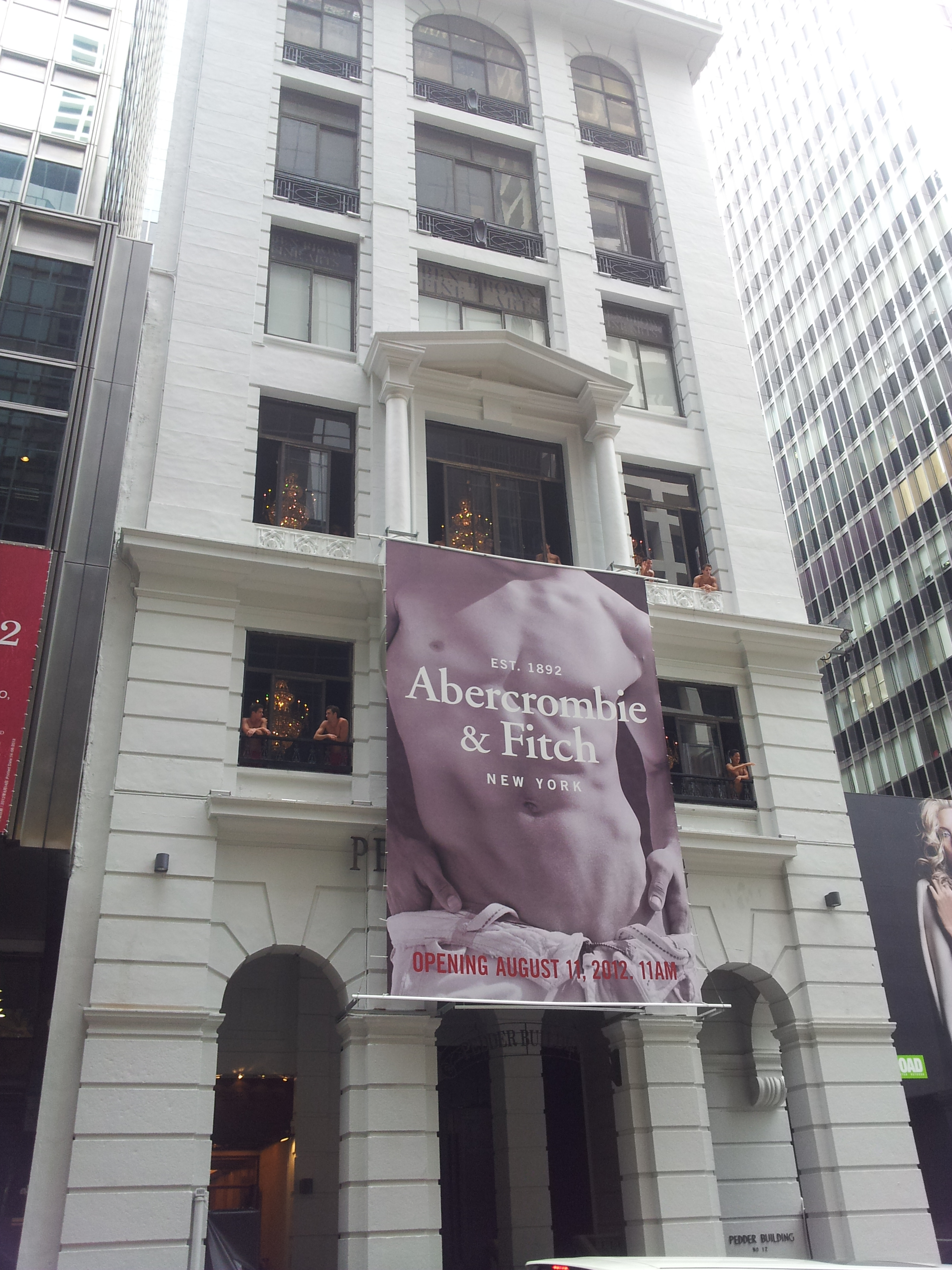 Abercrombie & Fitch Hong Hong store